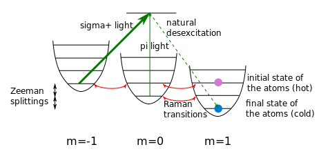 Schematic illustration of Raman Side-band cooling, largely inspired from the original paper Phys. Rev. Lett. 84, 3